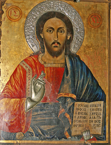 Christ Pantokrator Icon In Transfiguration Church in Pomorie, Stergios Dimitriou, 1852